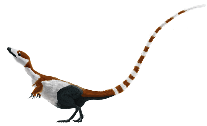 Digital illustration of the coelurosaurian dinosaur Sinosauropteryx prima, based on the holotype specimen. Coloration and pattern follows Zhang et al 2010. Zhang, F., Kearns, S.L., Orr, P.J., Benton, M.J., Zhou, Z., Johnson, D., Xu, X. and Wang, X. (In press). "Fossilized melanosomes and the colour of Cretaceous dinosaurs and birds." Nature, advanced online publication, 27 January 2010.